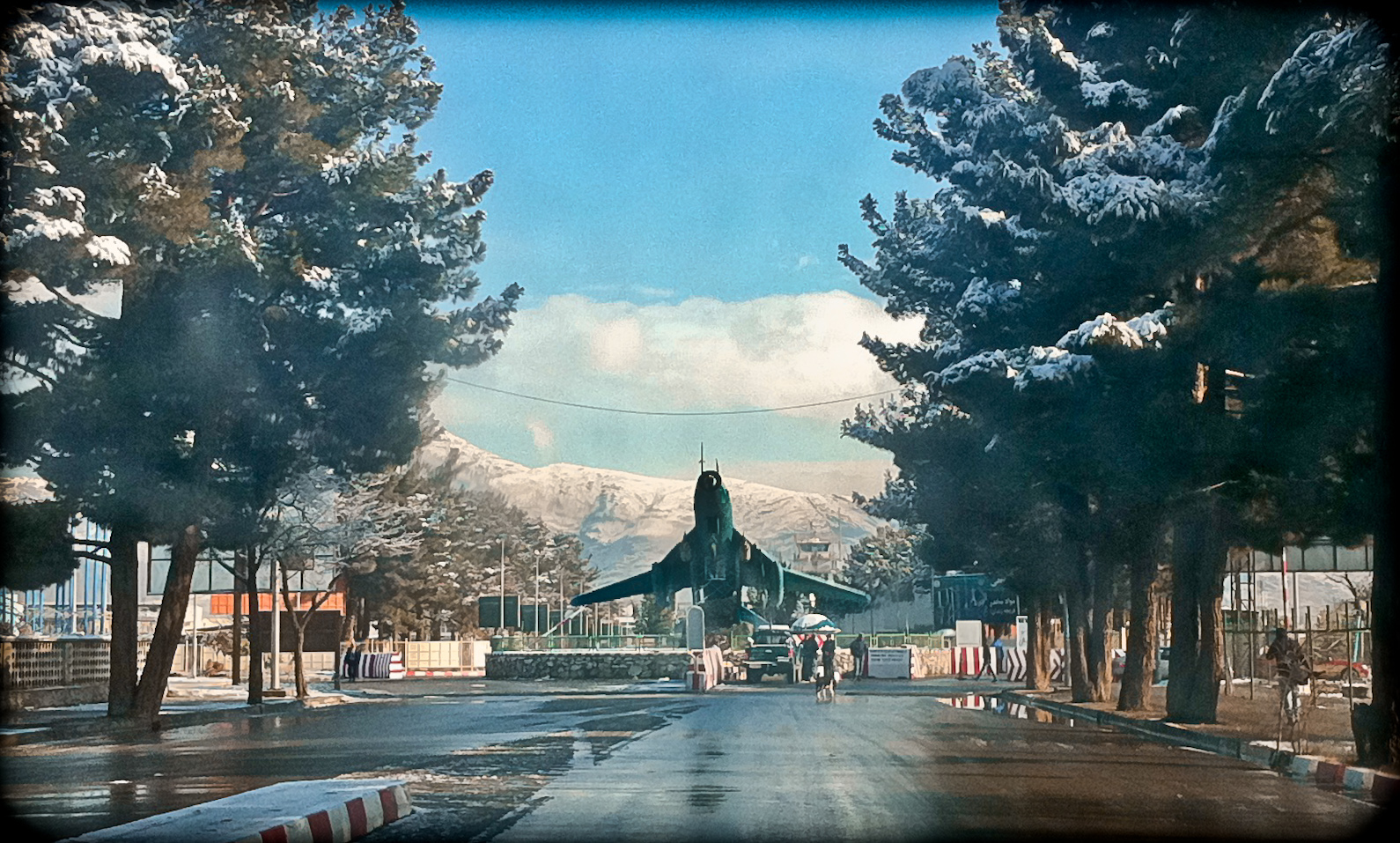 We were frisked half a dozen times on the way into the airport, but never thoroughly. There was a lot of getting out of the car, then getting back into it, walking through metal detectors and beeping, but it not mattering.